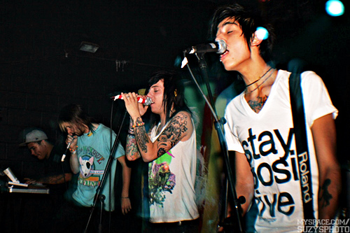 Breathe Carolina @ The Launchpad in Albuquerque, NM Pictured are Kyle Even, David Schmitt, and Joshua Andrew